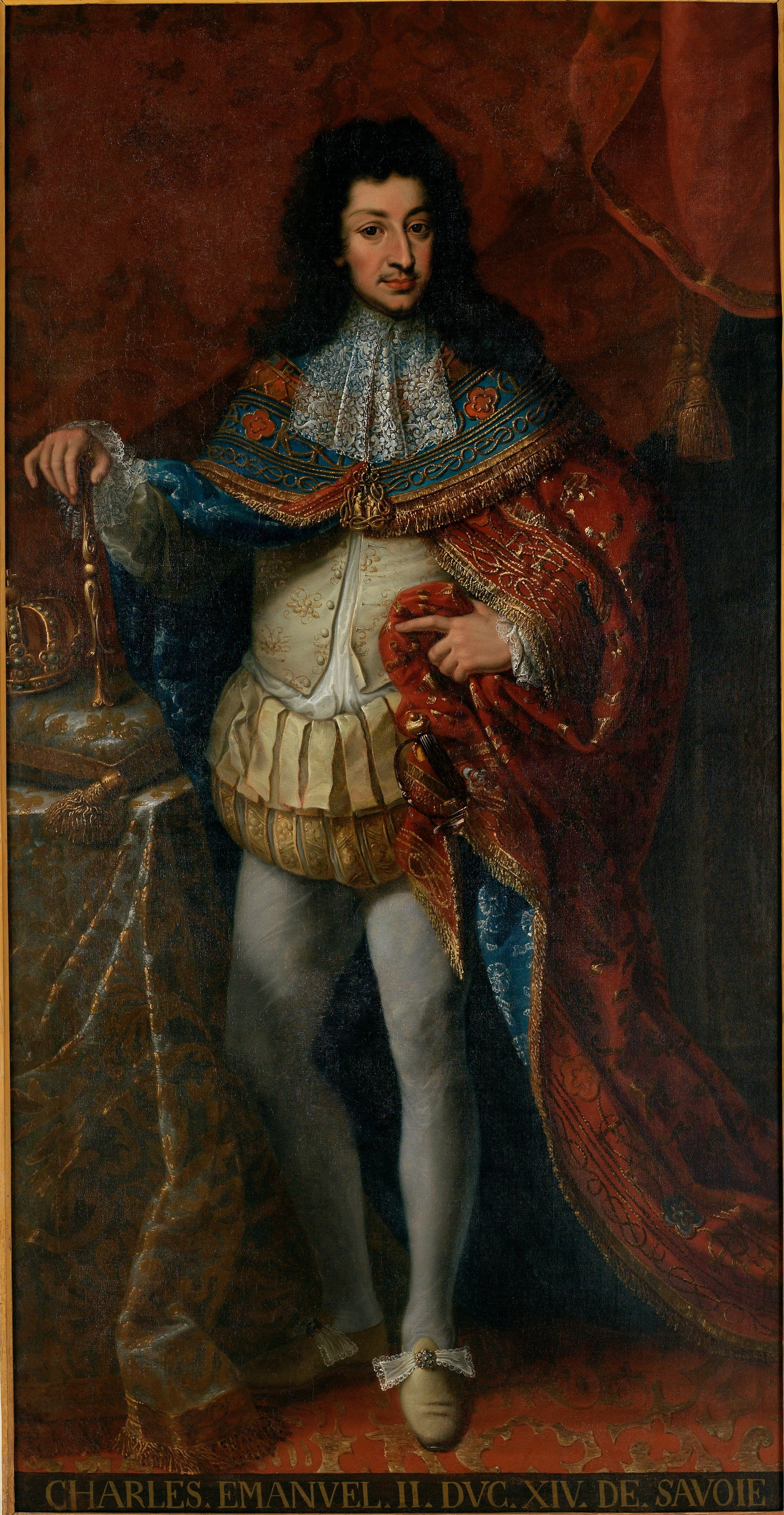 portait of Carlo Emanuele II